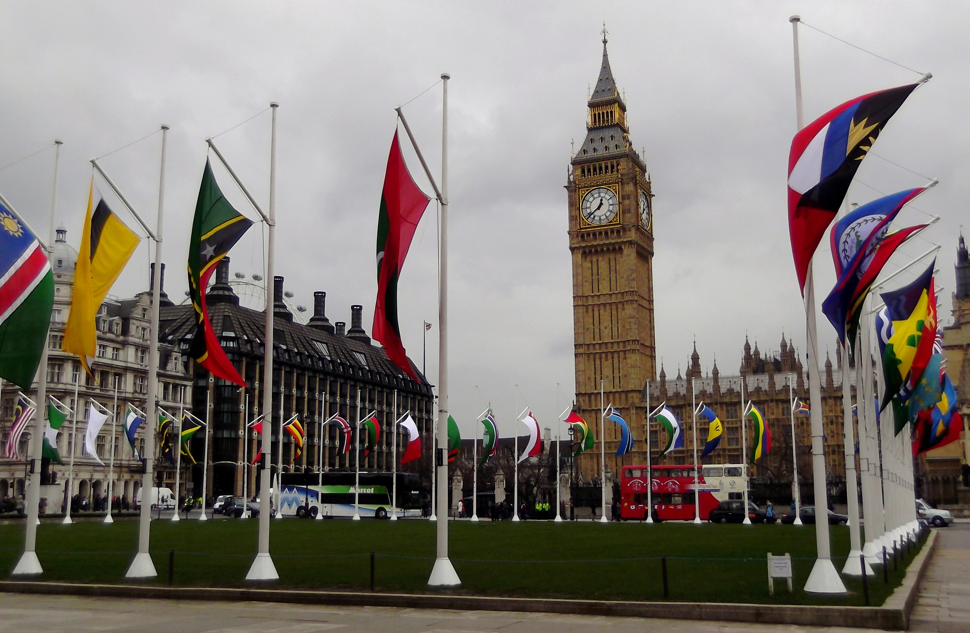 Commonwealth Day Parliament Square London